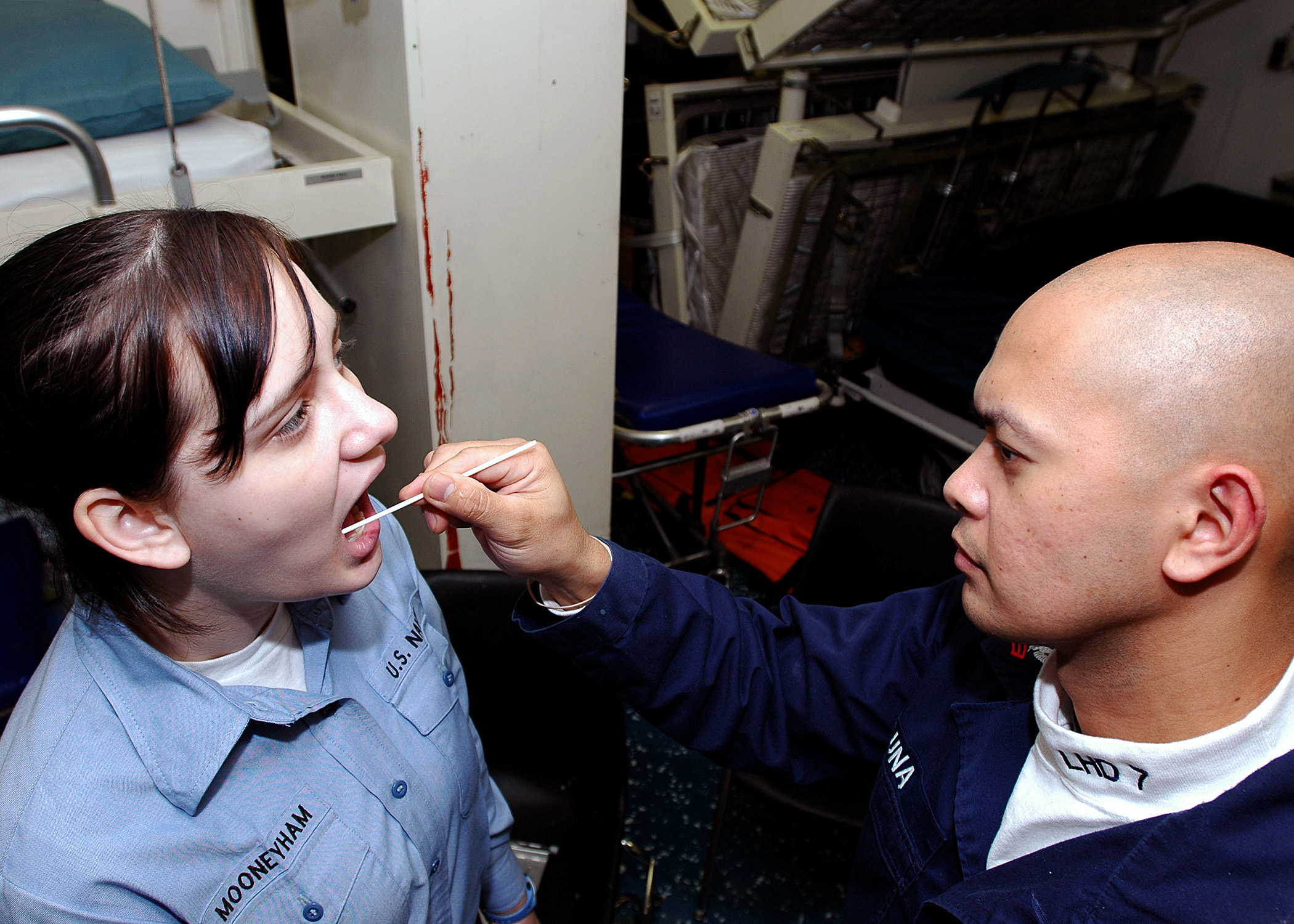 PERSIAN GULF (Jan. 5, 2009) Hospital Corpsman 1st Class Richie Luna uses a swab to take a DNA sample from Fireman Jodie Mooneyham aboard the multi-purpose amphibious assault ship USS Iwo Jima (LHD 7). The sample will be sent to the Bone Marrow Registry. Iwo Jima is deployed as part of the Iwo Jima Expeditionary Strike Group supporting maritime security operations in the U.S. 5th Fleet area of responsibility. (U.S. Navy photo by Mass Communication Specialist 2nd Class Michael Starkey/Released)